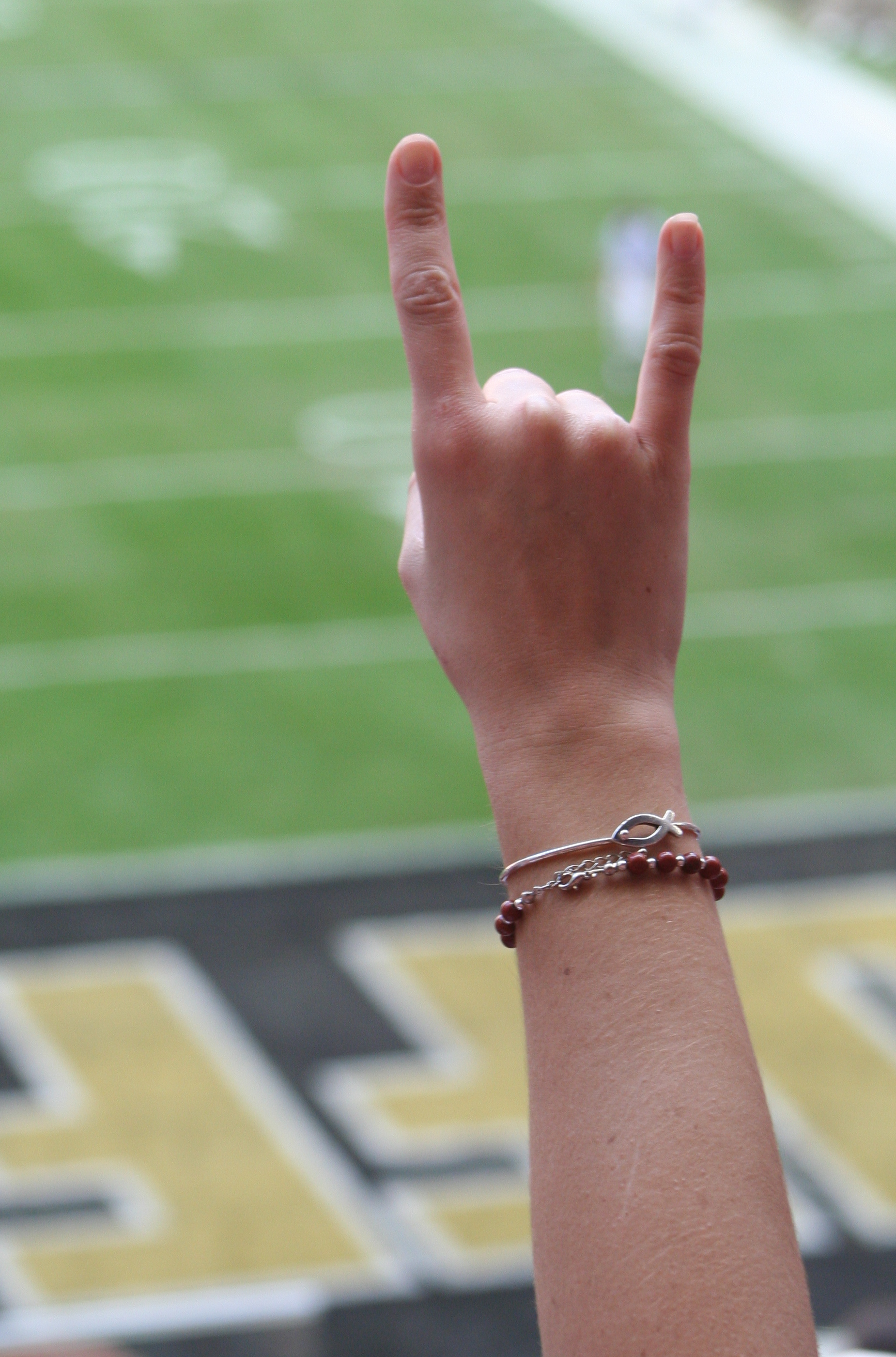 Photo by Johntex 2005.